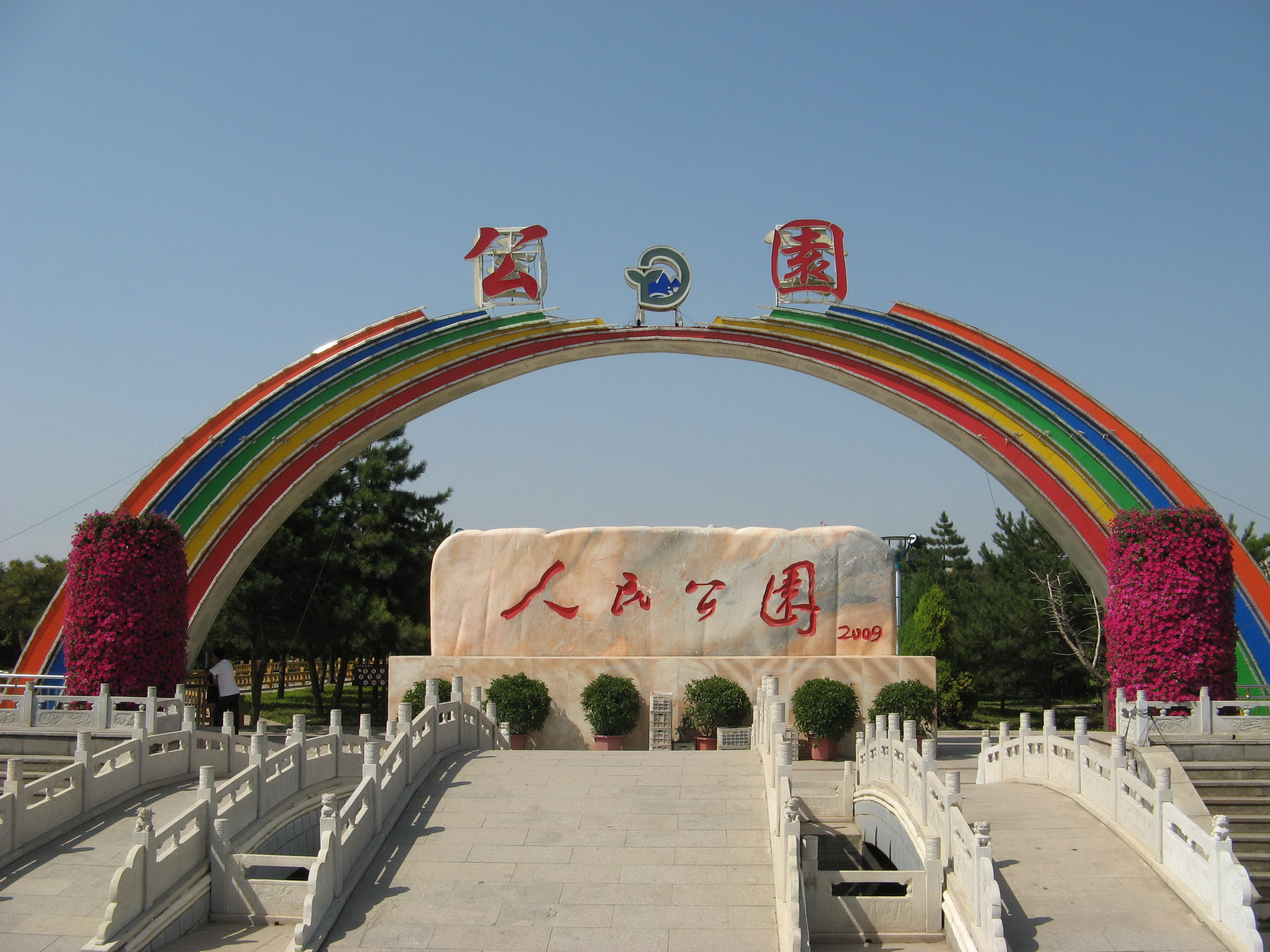 Gate of People's Park, Huairen, Shanxi, China